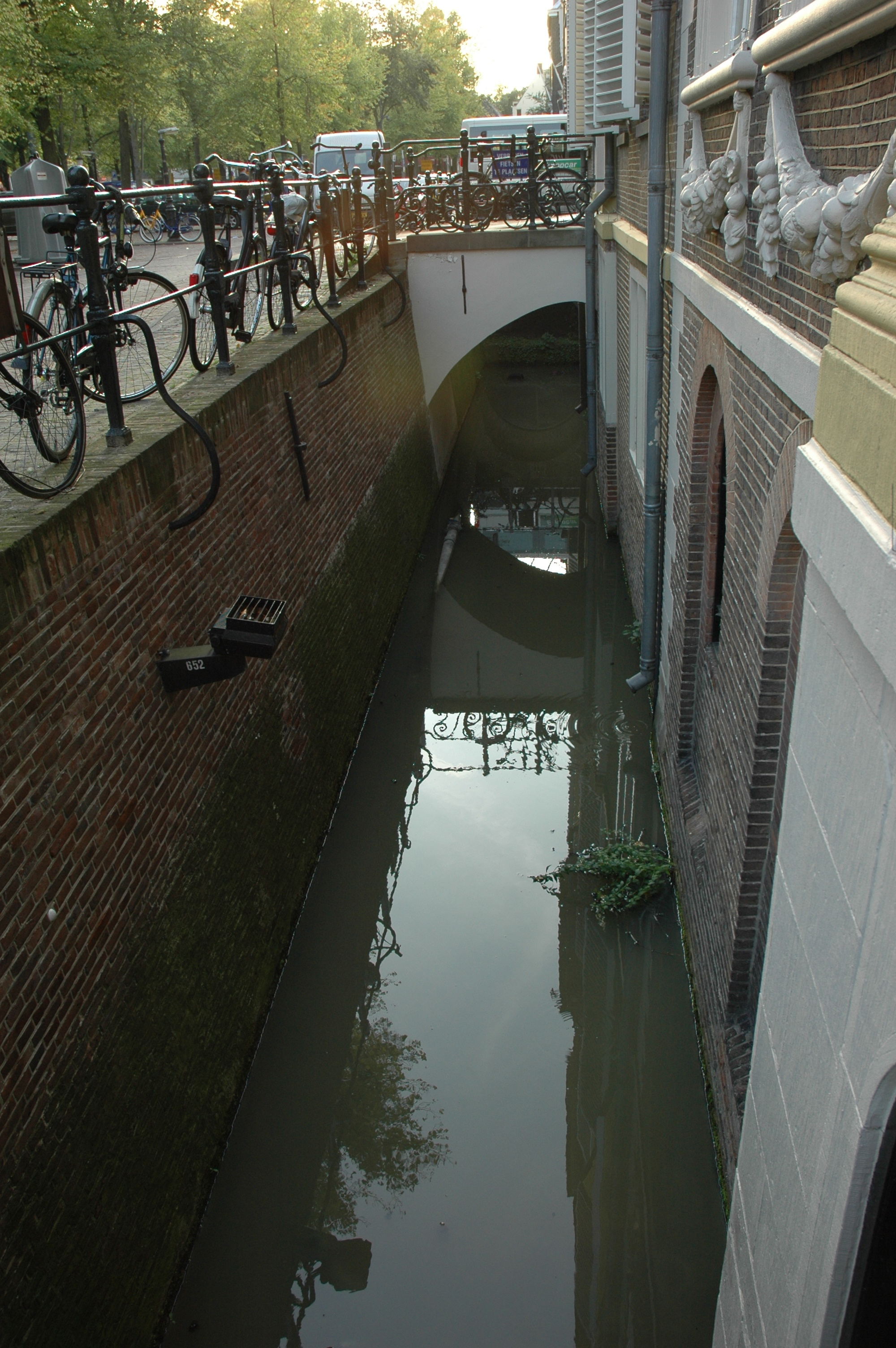 Canal limiting the former church immunity at Janskerkhof, Utrecht, The Netherlands.